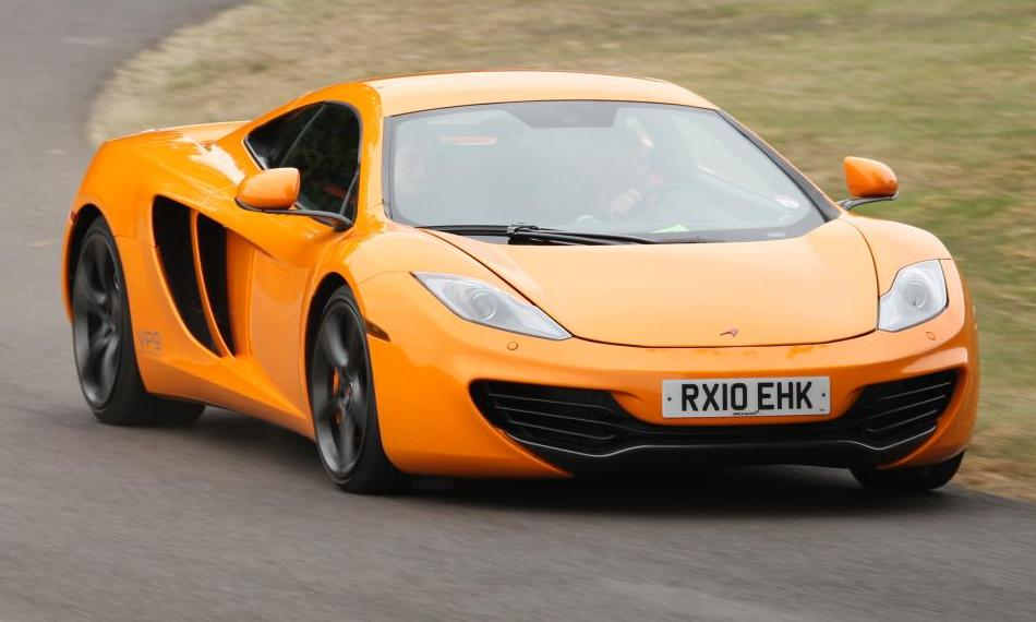 pictures from friday at fos